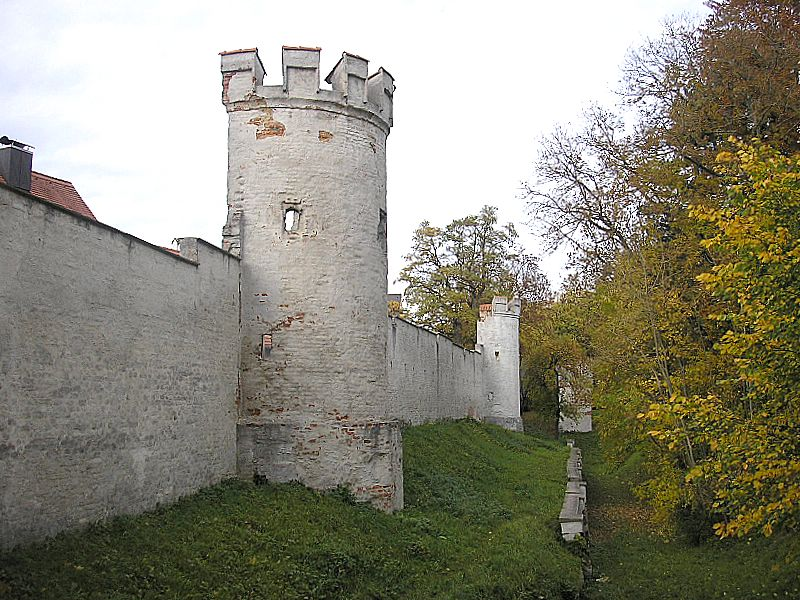 Landsberg am Lech (Oberbayern). Stadtmauer nördlich des "Bayertores". Blick nach Norden. Eigene Aufnahme, Okt. 2006 / Landsberg am Lech (Upper Bavaria, Germany). City wall north of the „Bayertor“ („Bavarian gate”), looking north. Own photo, Oct. 2006.